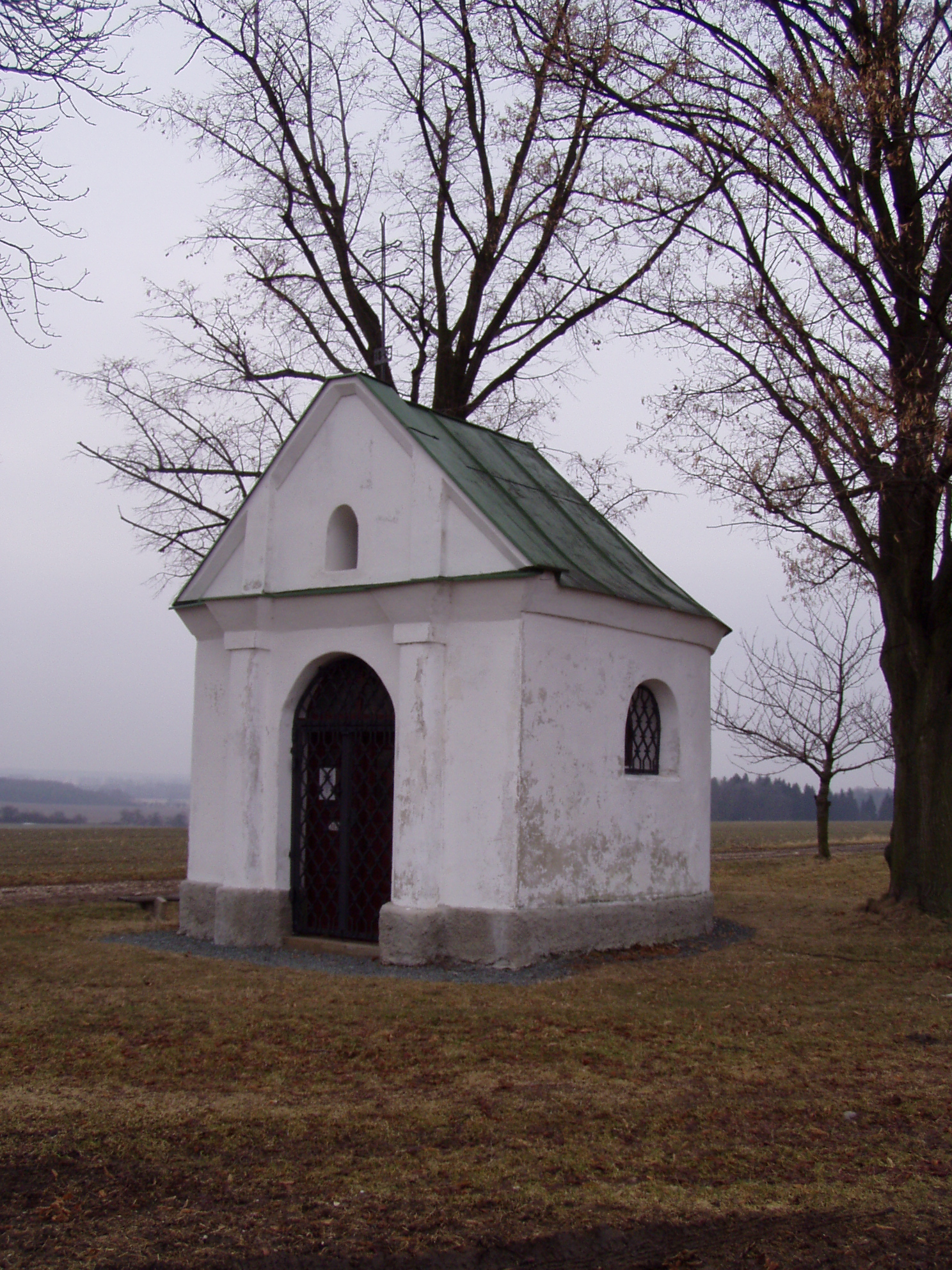 Velká Jesenice - chapel of Saint Francis of Assisi